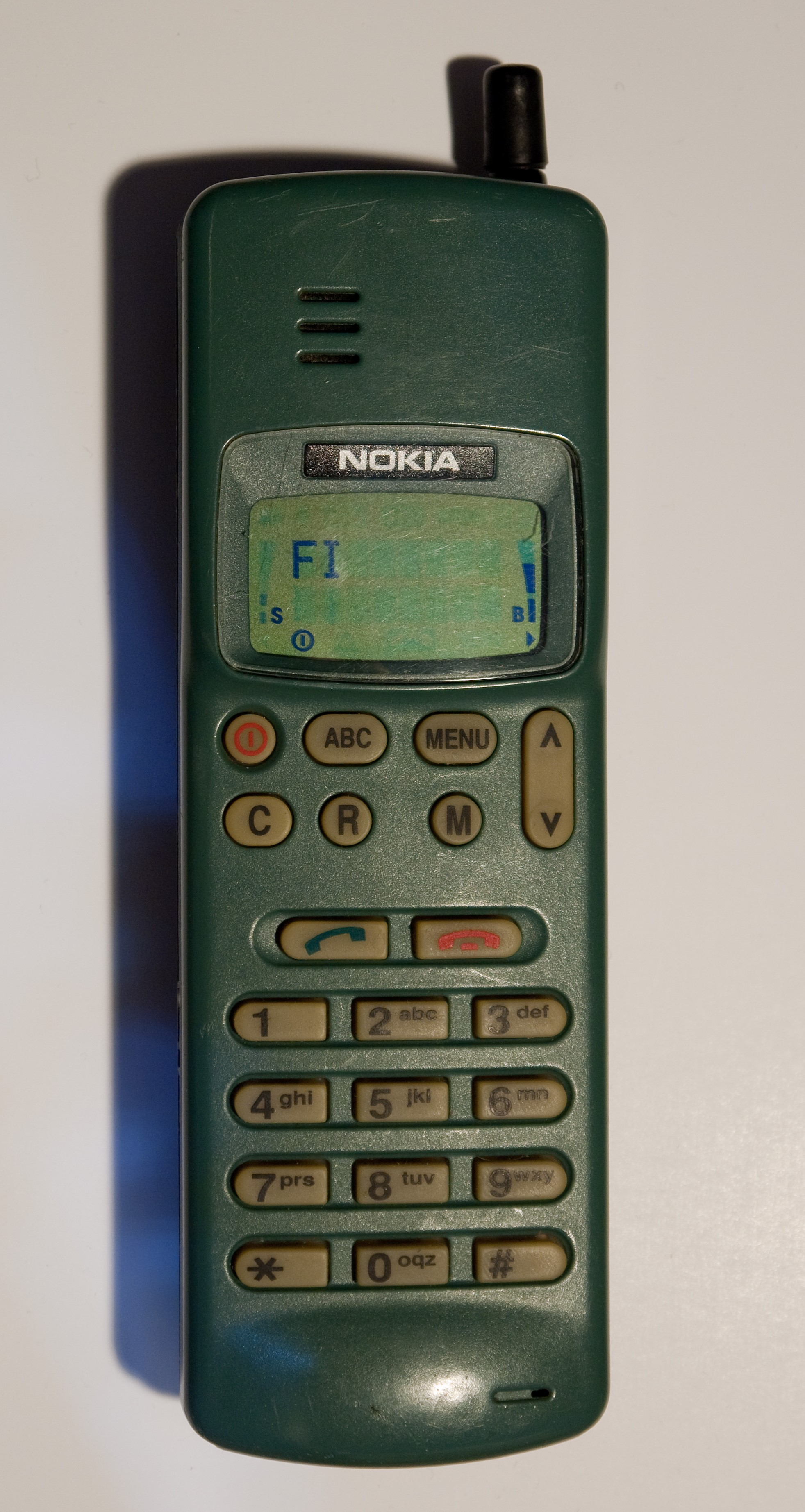 Nokia 101 THN-6B